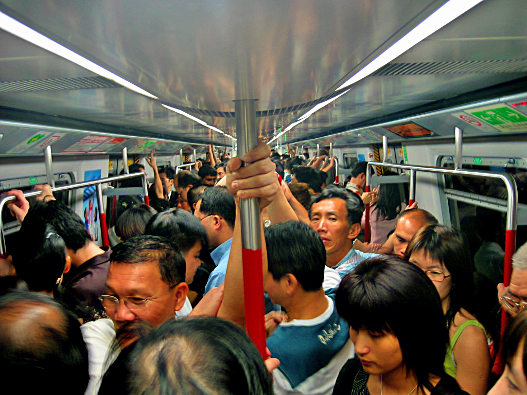 Rush hour on the MTR